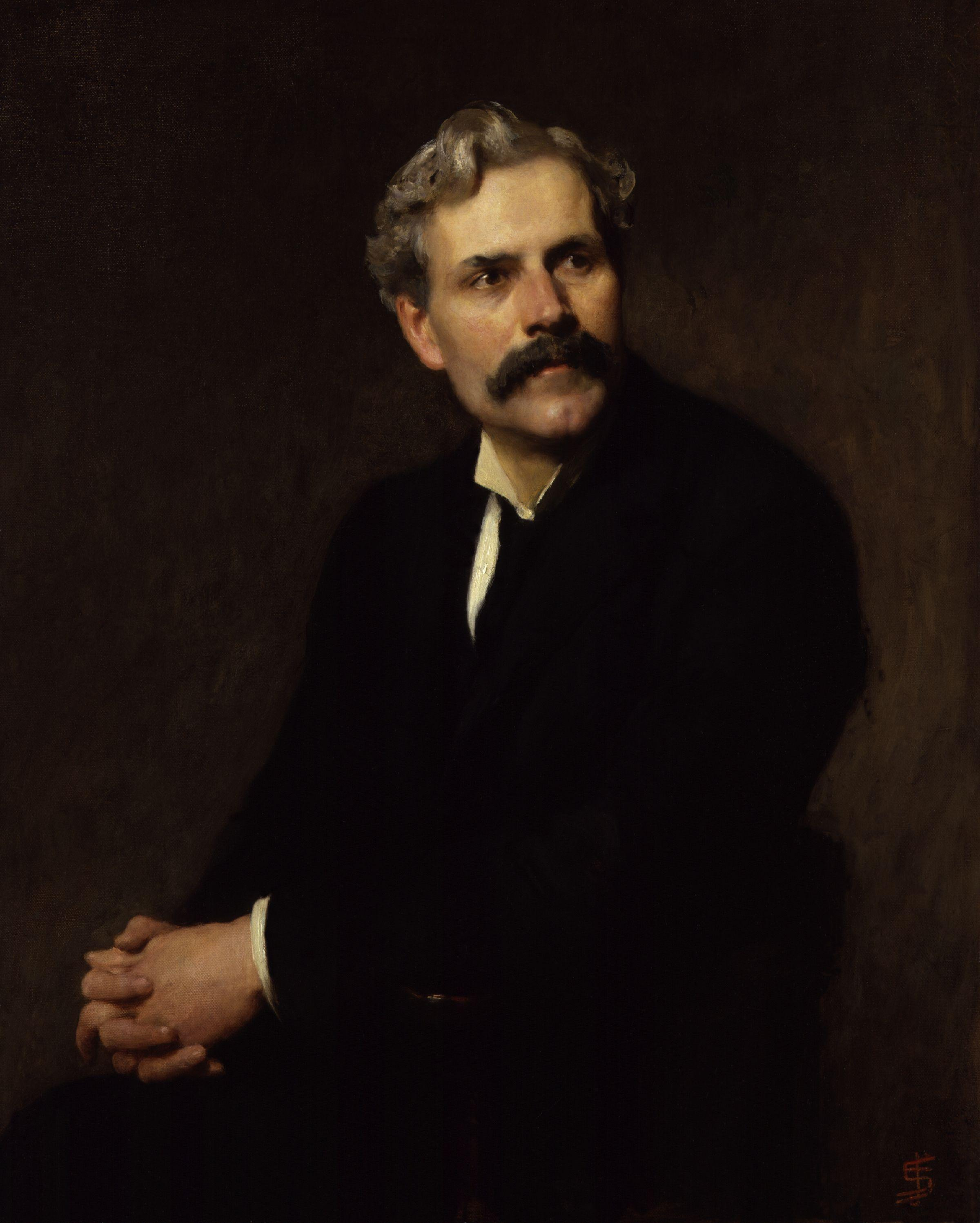 Portrait of Ramsay MacDonald, British statesman and Prime Minister.